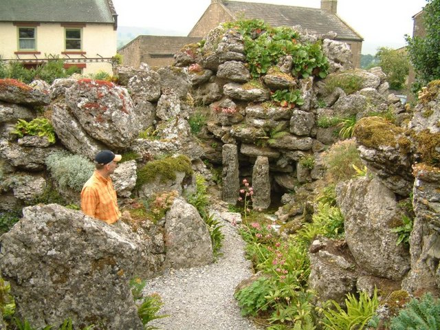 Aysgarth Rock Garden